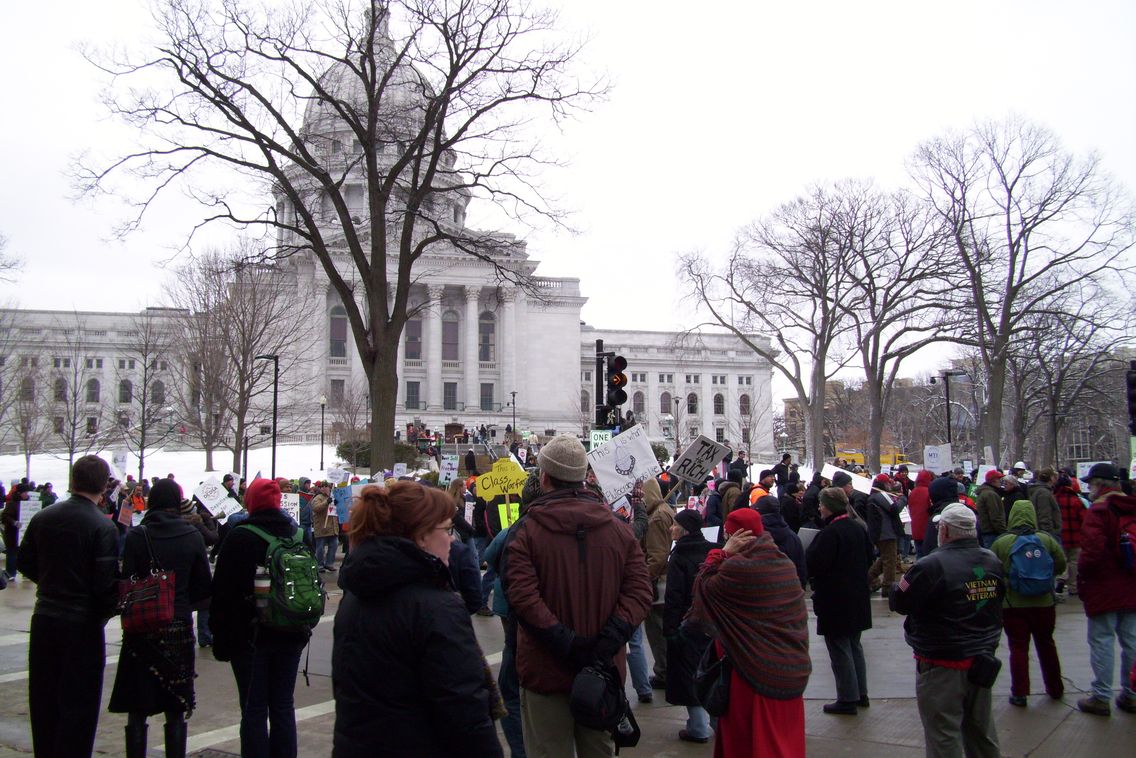 Protesters demonstrating at the Wisconsin State Capitol against the collective bargaining restriction on unions by Governor Scott Walker